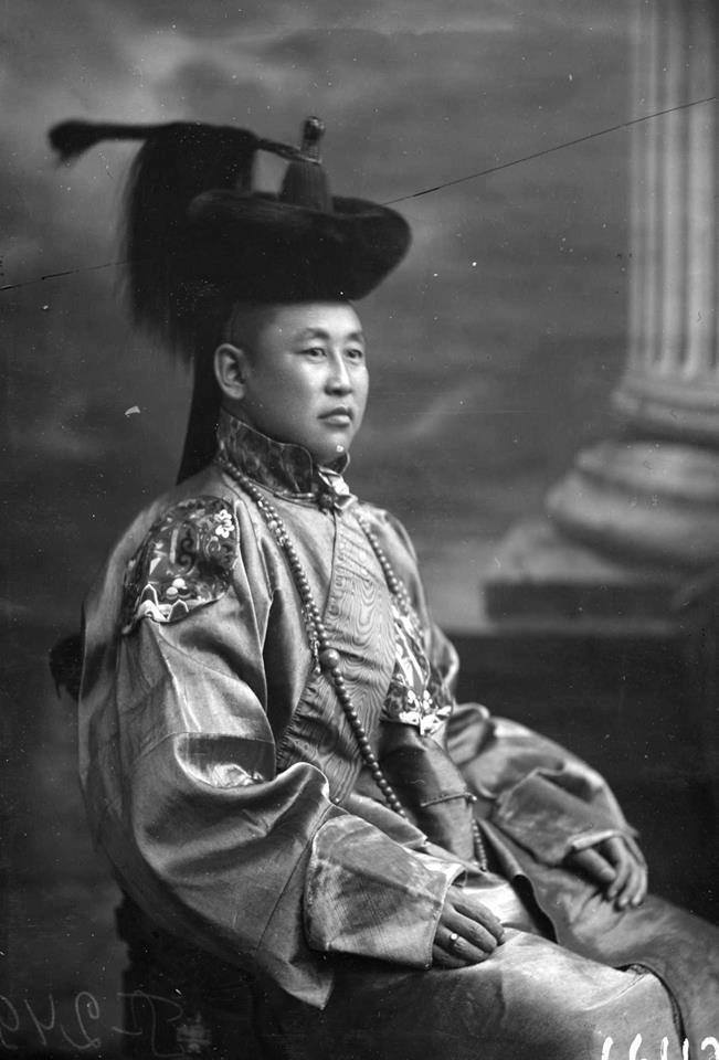 1st Prime Minister of Mongolia Tögs-Ochiryn Namnansüren Монгол: Монгол улсын анхны Ерөнхий сайд Төгс-Очирын Намнансүрэн